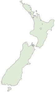 Map of New Zealand